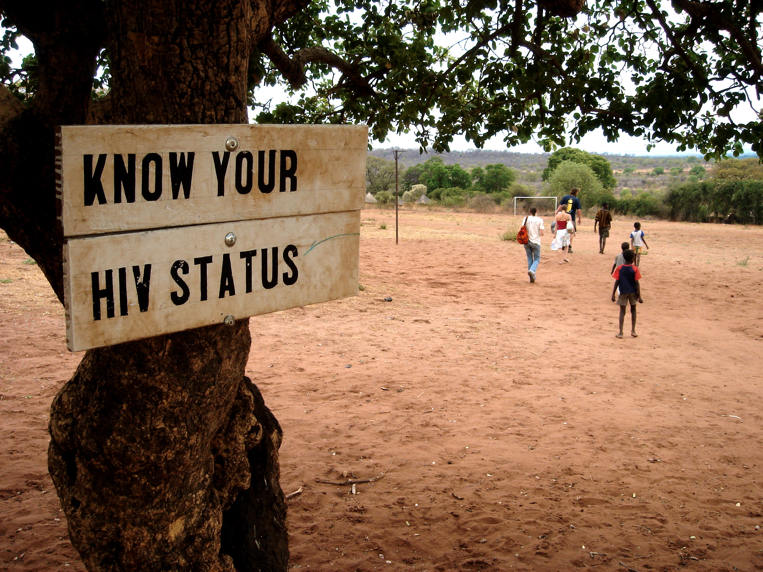 Sign: Know your HIV status in Zambia, Africa